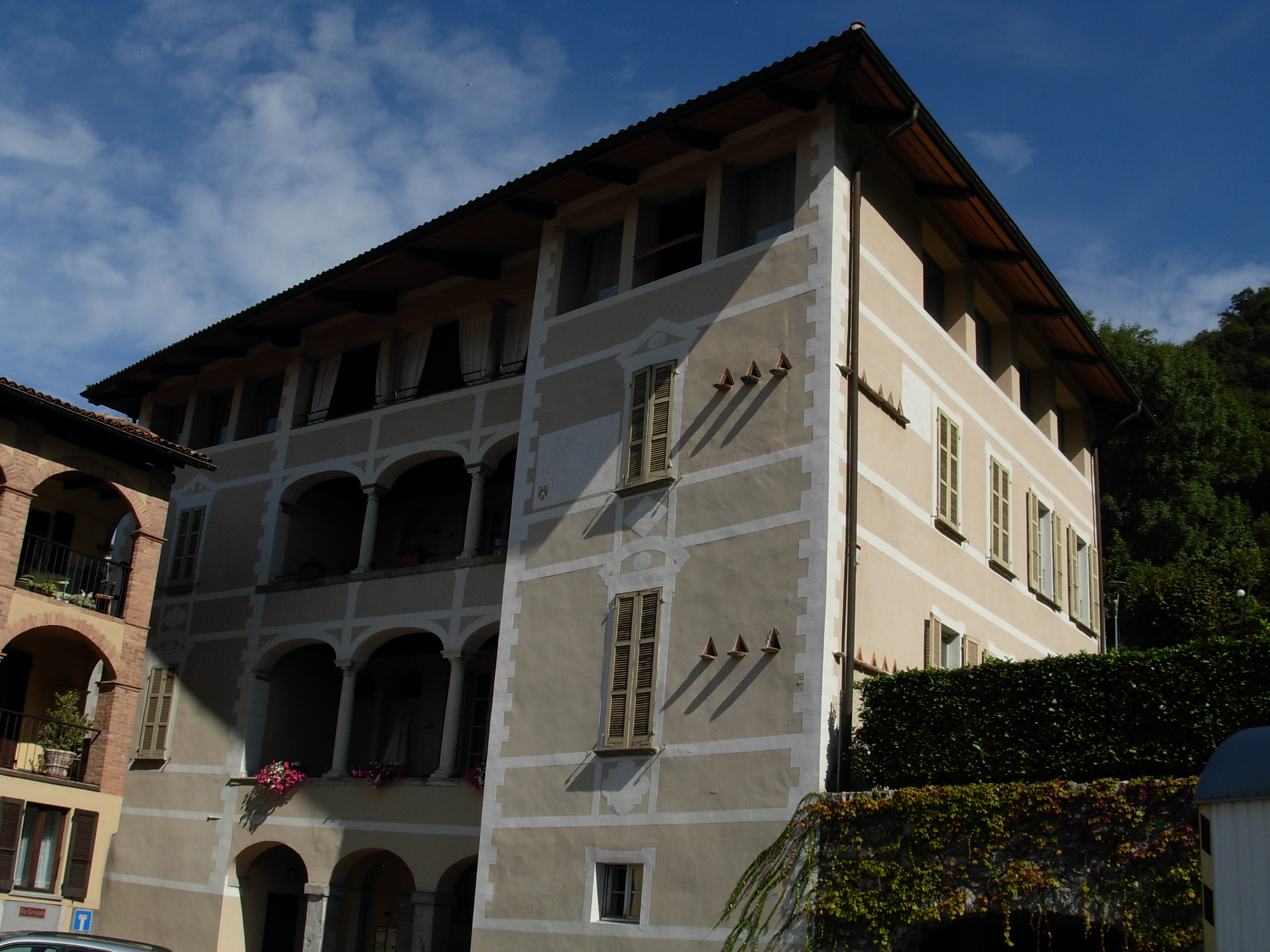 Casa Laurenti in Carabbia